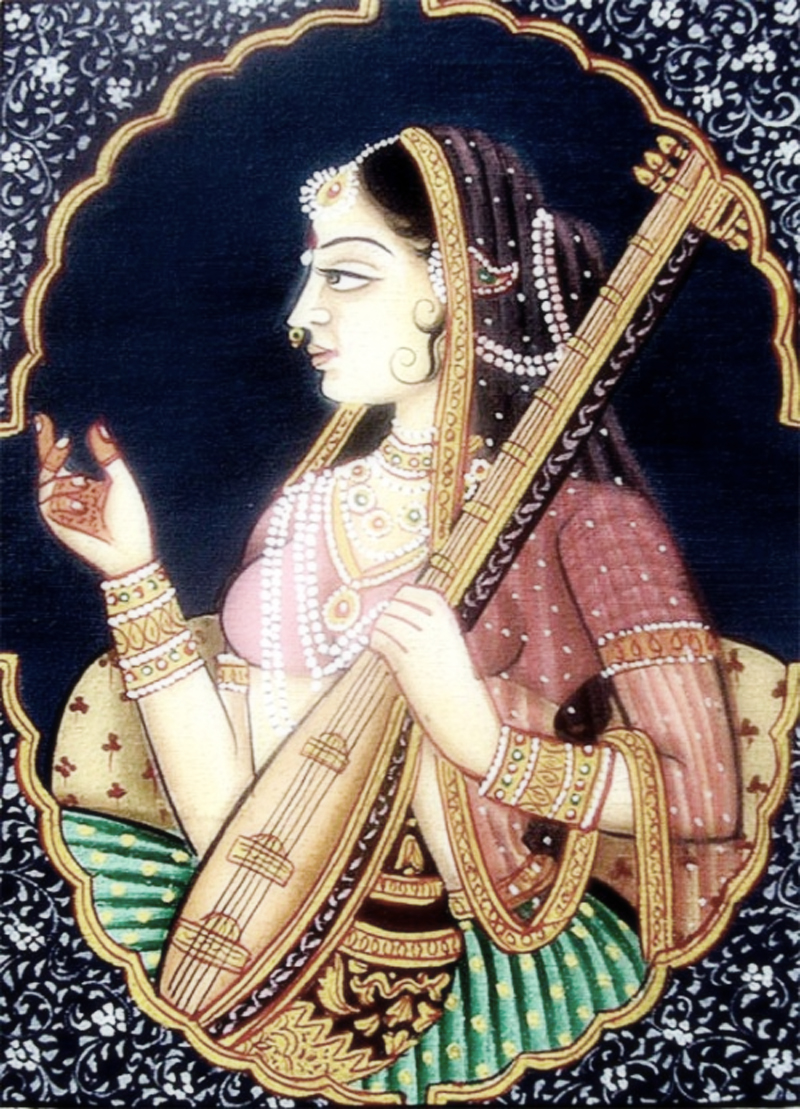 Rajasthani Painting of Meerabai.